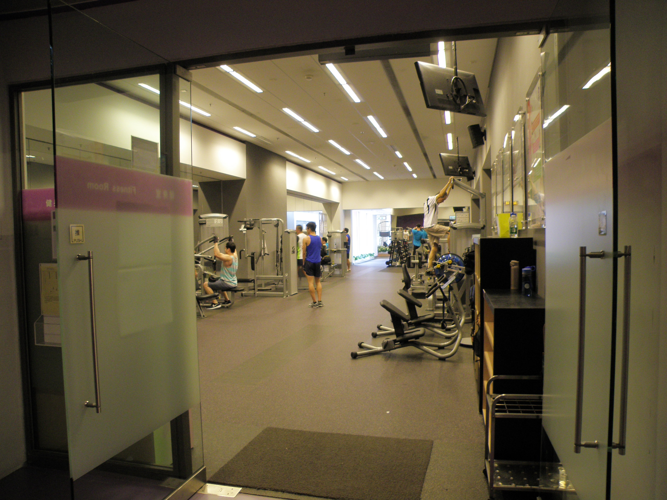 LCSD Fitness Room in Hong Kong.